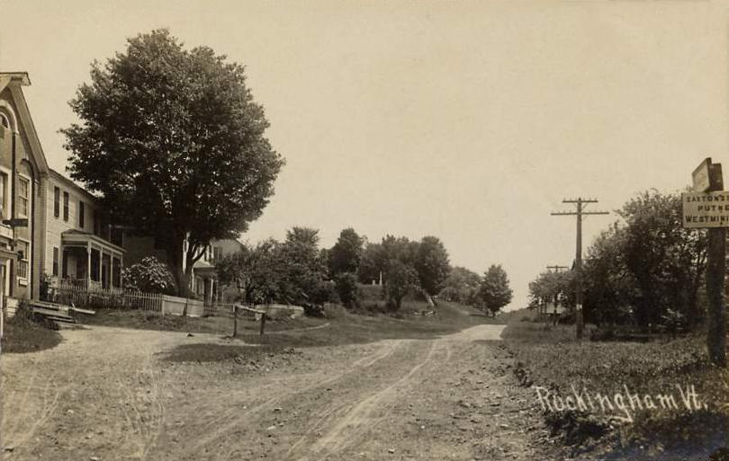 Street scene, Rockingham, Vermont; from a c. 1910 postcard.